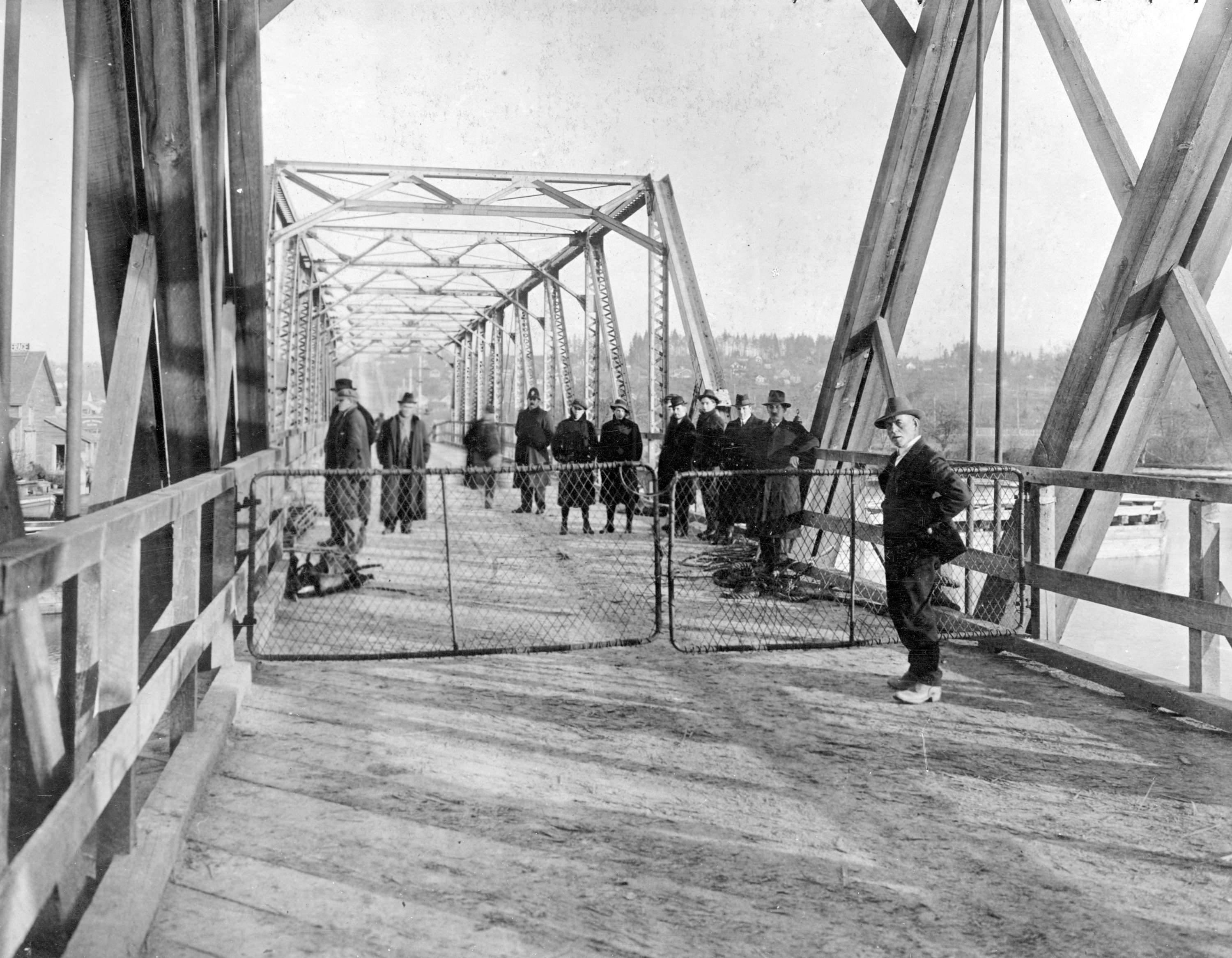 Fraser Ave Bridge showing roadway barrier and bystanders